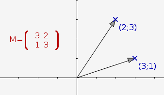 A dynamically generated matrix thanks to LaTeX. Made with the software CaRMetal.